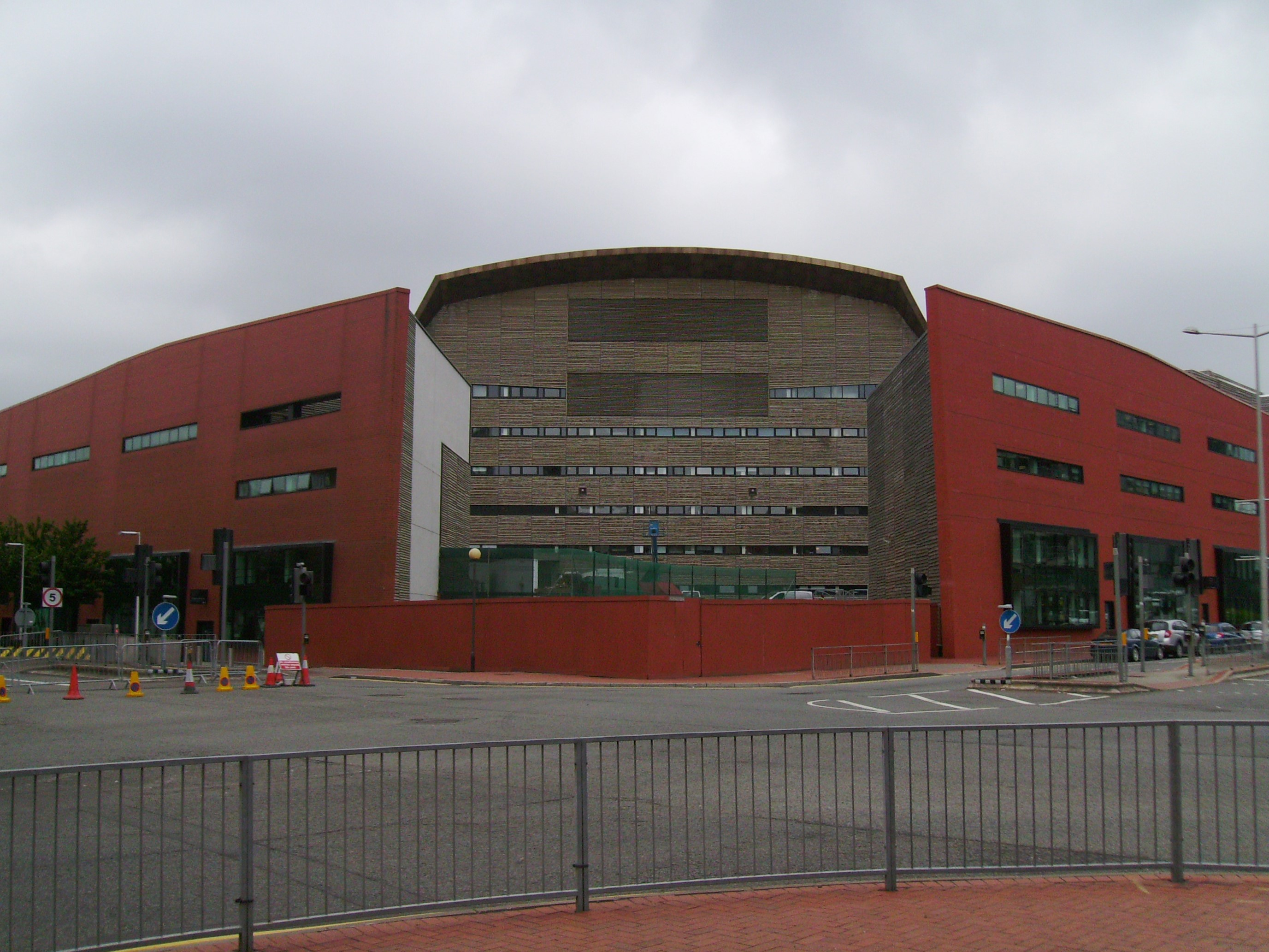 Back of Wales Millennium Centre, Cardiff Bay, Wales